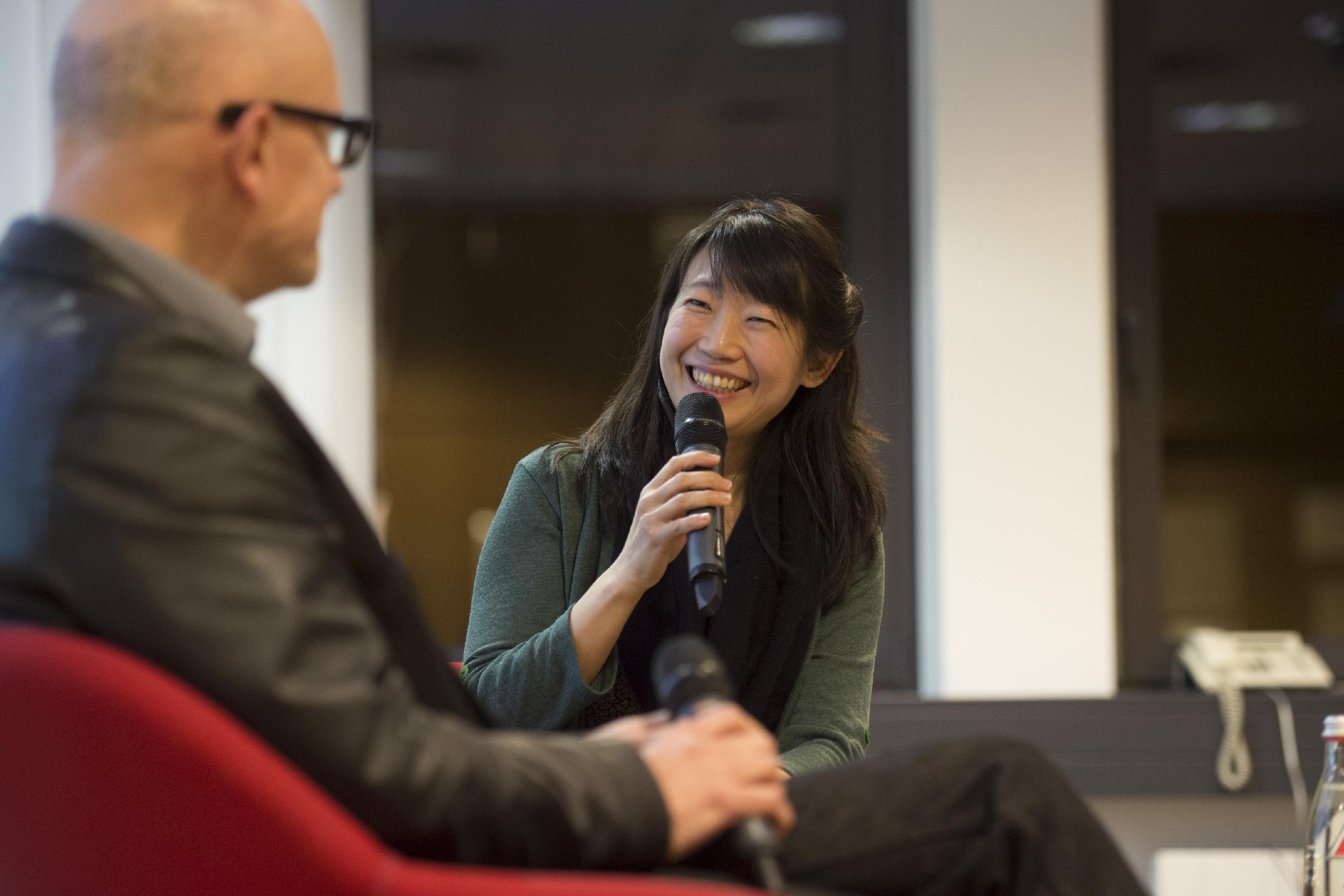 Depicted person: Madeleine Thien – Canadian writer